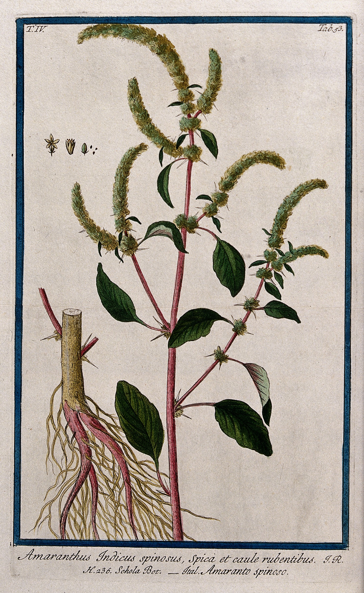 Amaranthus spinosus L.: flowering stem with separate root and floral segments. Coloured etching by M. Bouchard, 177-. Iconographic Collections Keywords: Giorgio Bonelli; Magdalena Bouchard